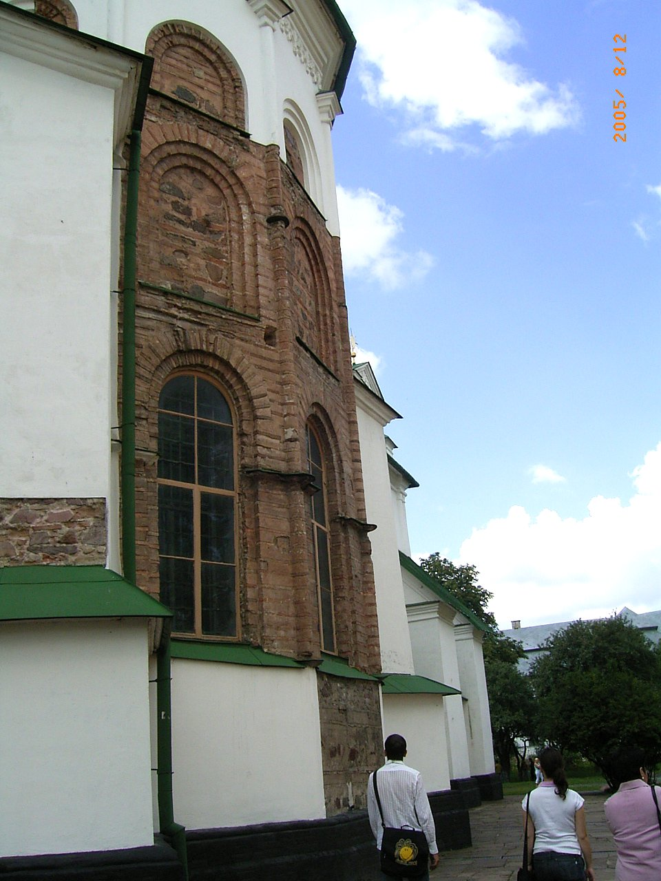 Description: Bric layers of the 11th century, St. Sophia, Kiev Author: Alexander Noskin Date: 8-12-2005